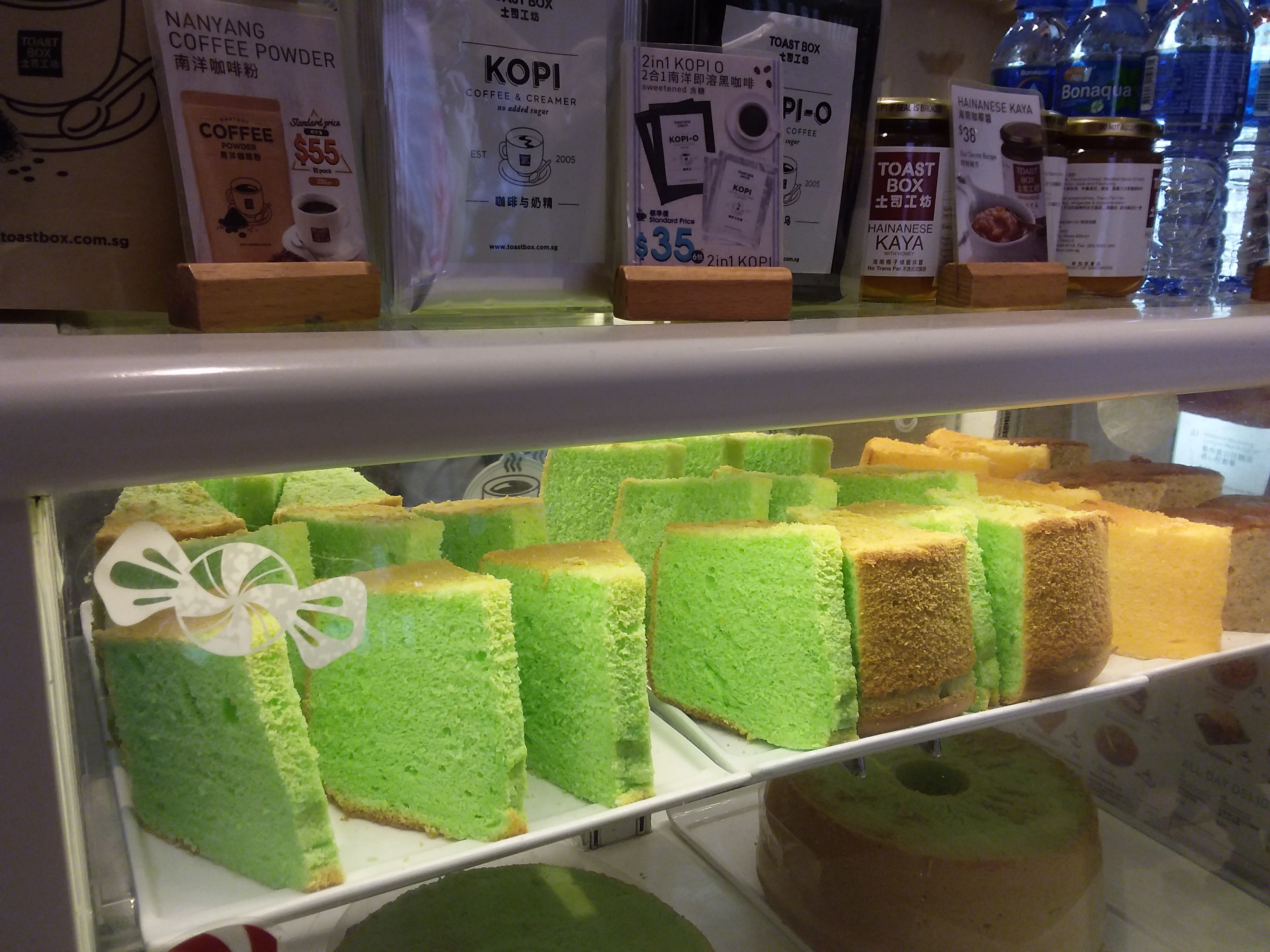 HK TSO 將軍澳 Tseung Kwan O PopCorn mall in December 2018